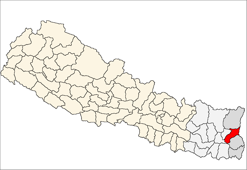 FrenchCarte de localisation dudistrict de Panchthar(wp-FR),au Népal (wp-FR).EnglishLocation map ofPanchthar District(wp-EN),in Nepal (wp-EN).